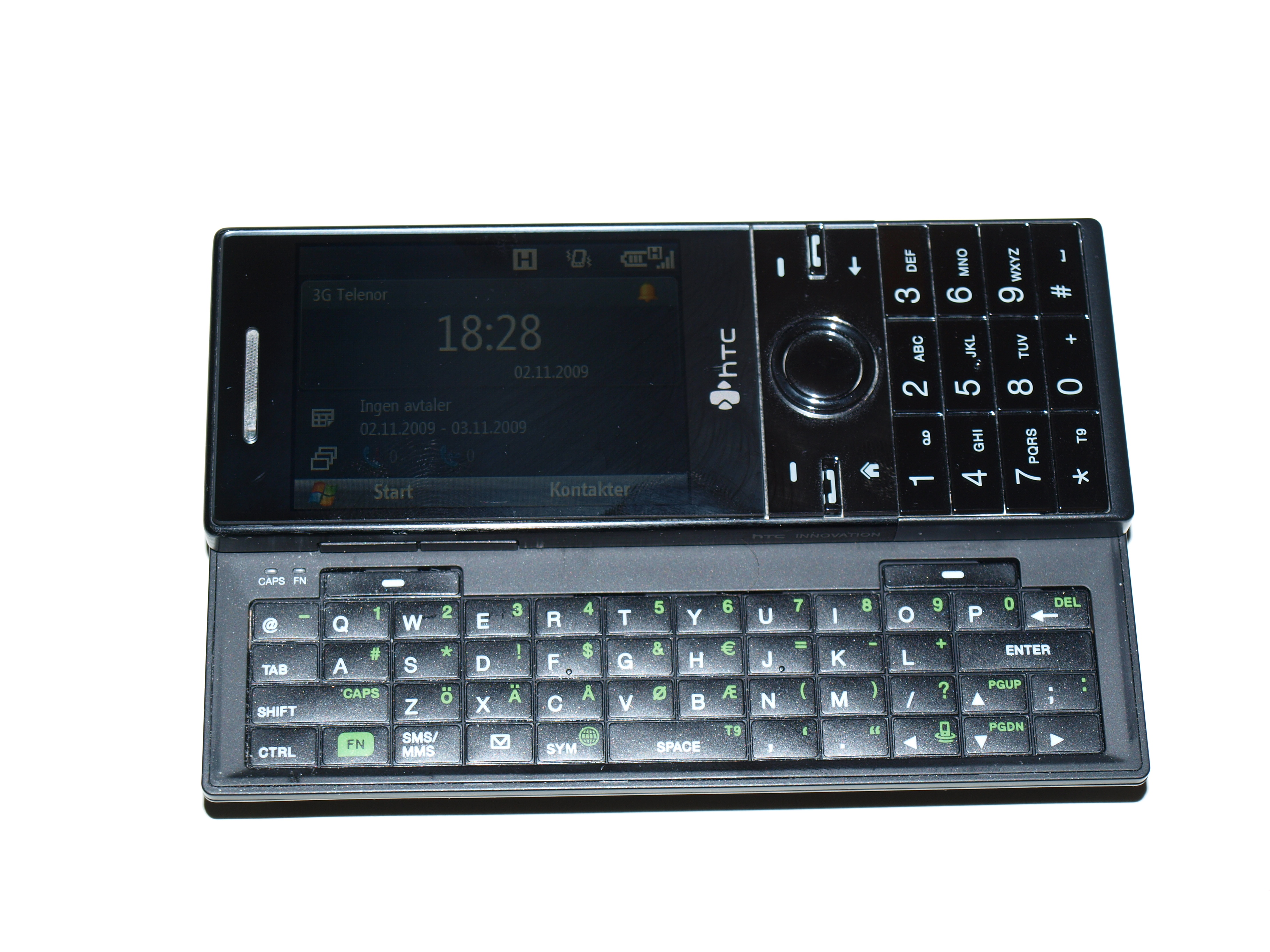 HTC S740, showing qwerty keyboard.